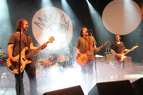 Ween in Edmonton, Alberta, Canada at the Edmonton Events Centre. Shown are Dave Dreiwitz, Gene Ween and Dean Wee.